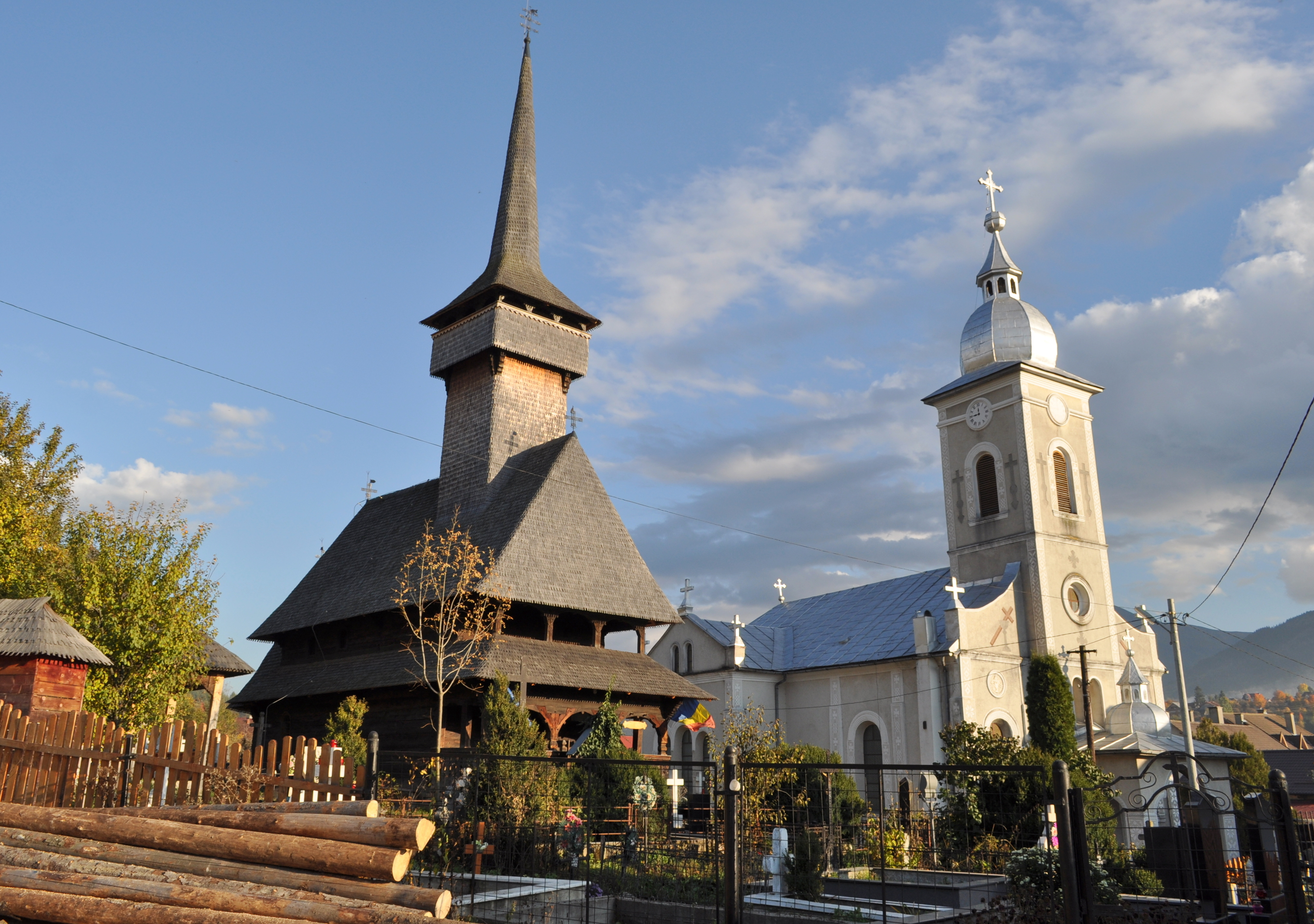 Wooden church in Borșa, Maramureș county, Romania